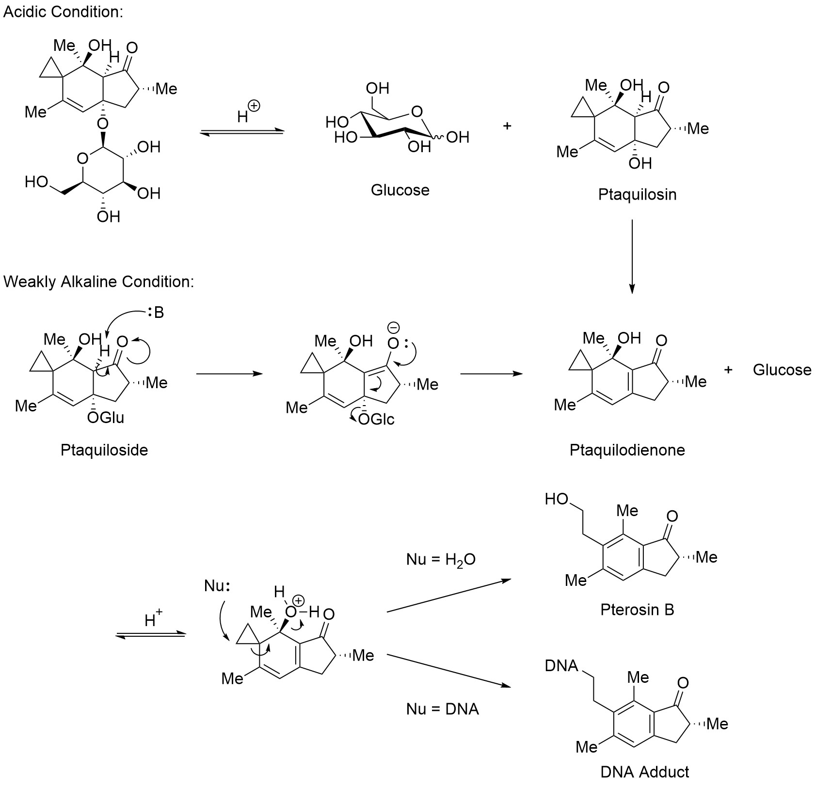 The mechanism of action of ptaquiloside under acidic and weakly alkaline conditions.